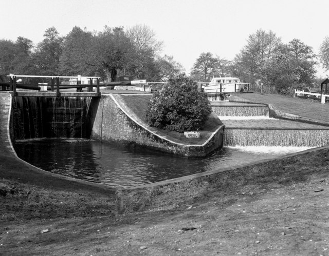 Papercourt Lock, Wey Navigation This shows the tailgate of the lock and the attractive (and functional) overflow weir. About 200 years below Papercourt Lock, Broadmead Cut, which has been accompanying us nearby to the north, re-enters the 'wild' River Wey, which then rejoins the navigation, and for about five hundred yards, the navigation is occupying the natural course of the River Wey.